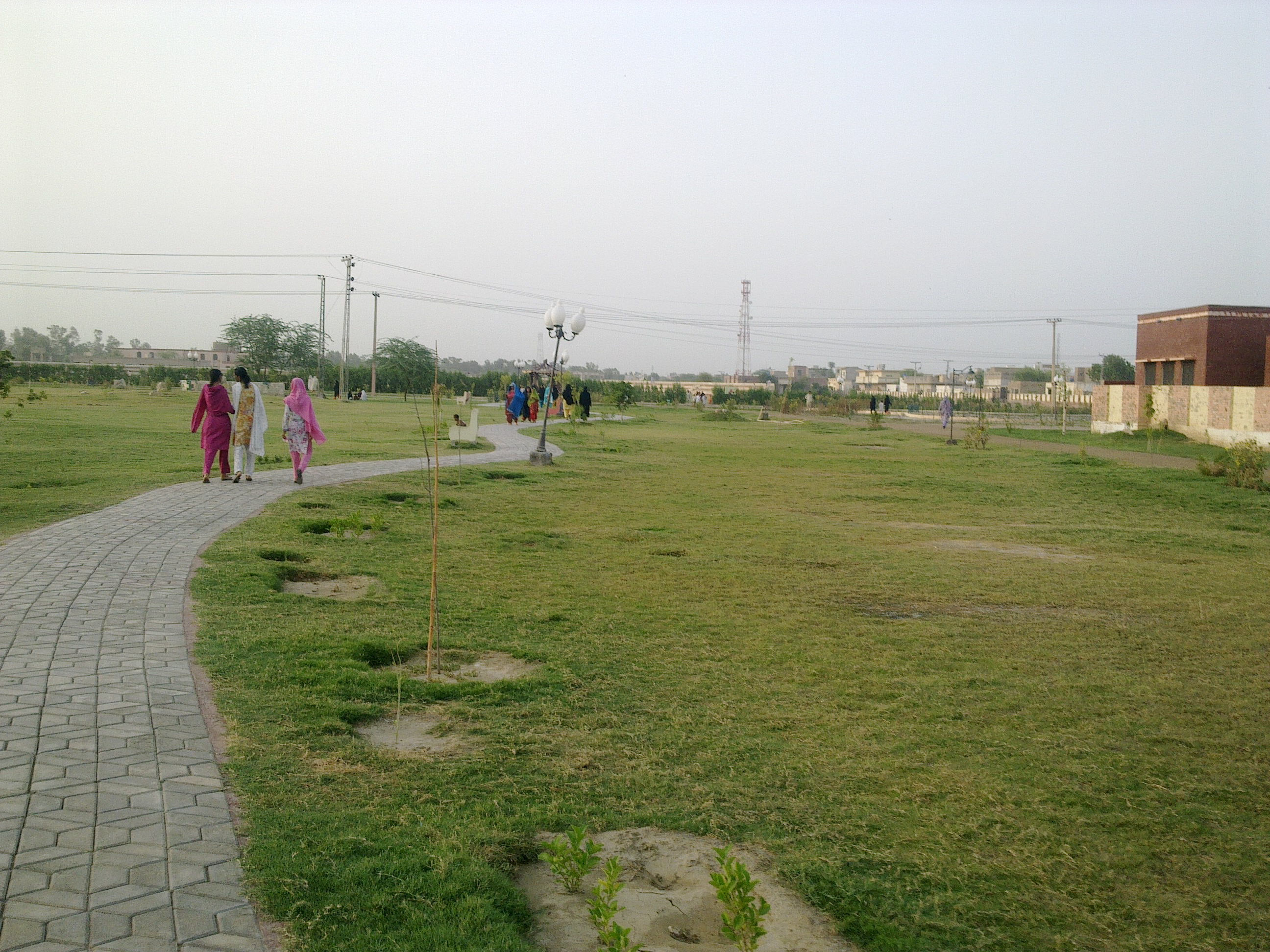 Nawaz Sharif Park,D.G.Khan